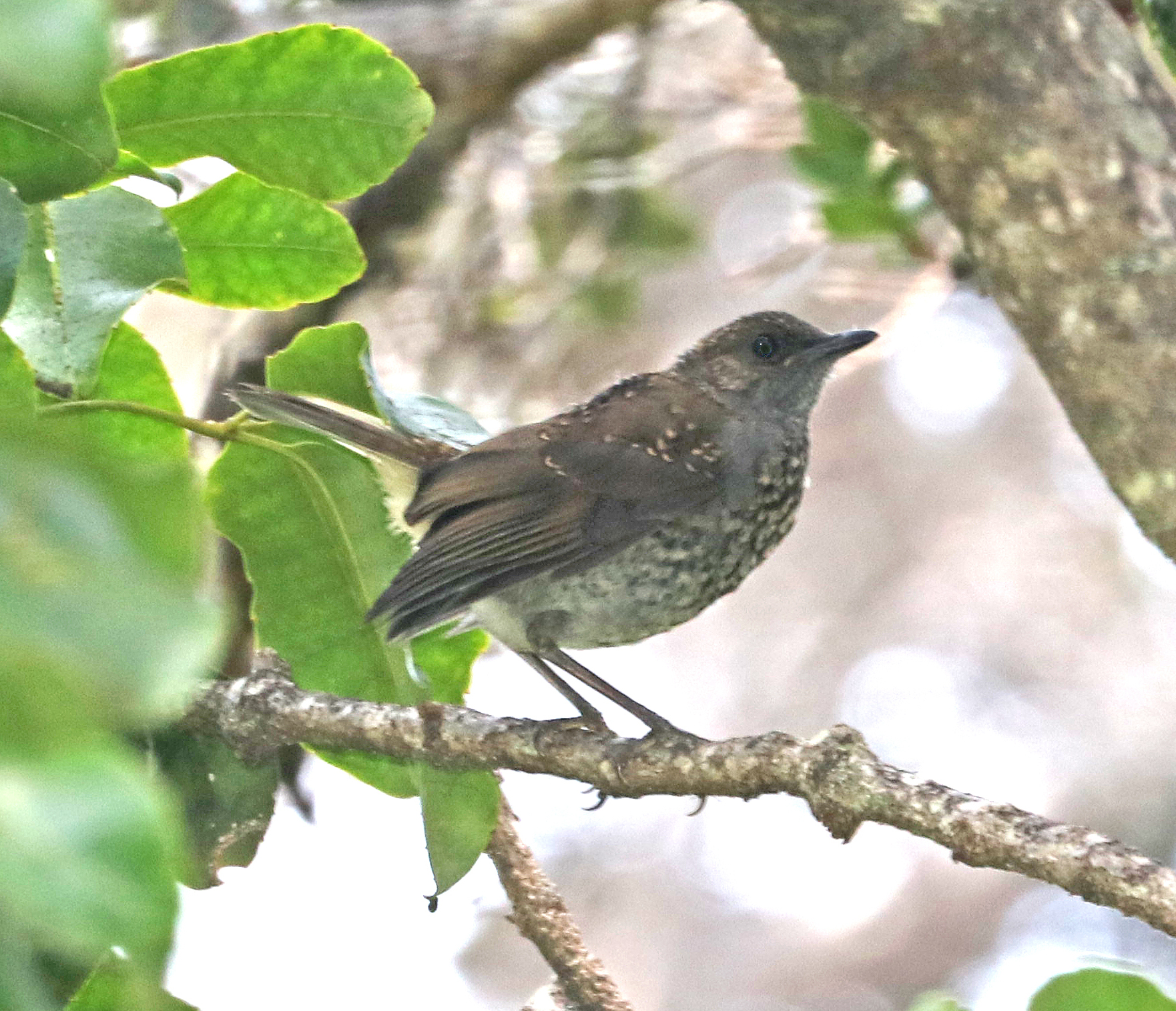 OMA'O (8-30-2017) hakalau forest national wildlife refuge, hawaii co, hawaii -01 immature